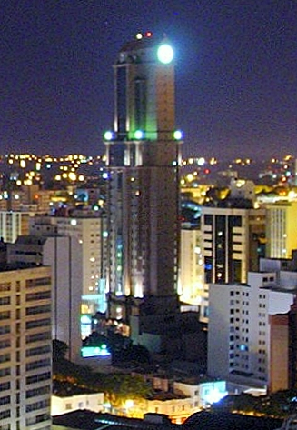 Curitiba Trade Center Office Building, Paraná, Brasil/Brazil